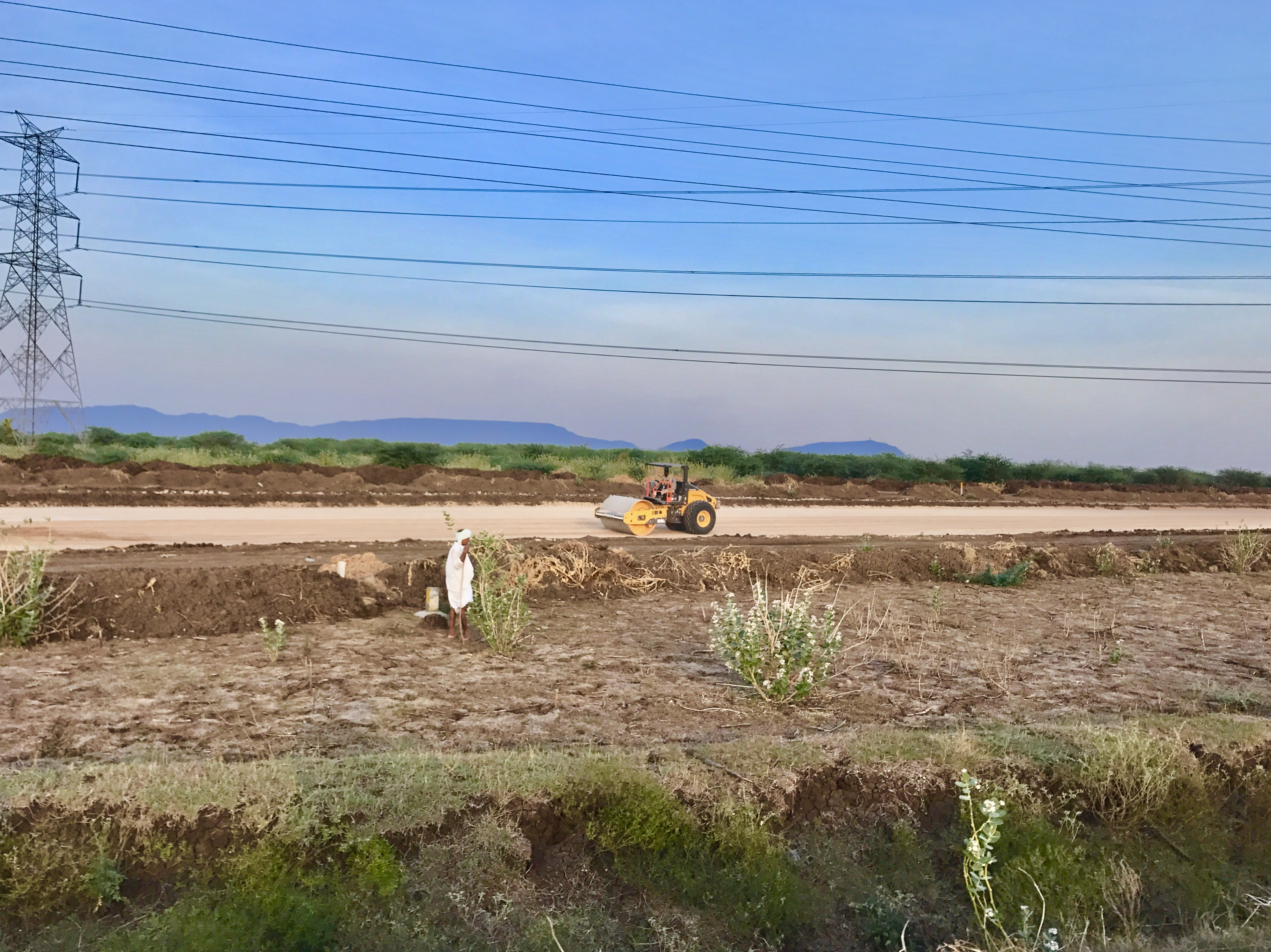 A road roller rolling on Arterial road in Amaravati, Andhra Pradesh